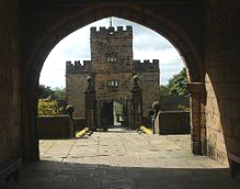 Photograph of Hoghton Tower Gateway, cropped and enhanced by myself